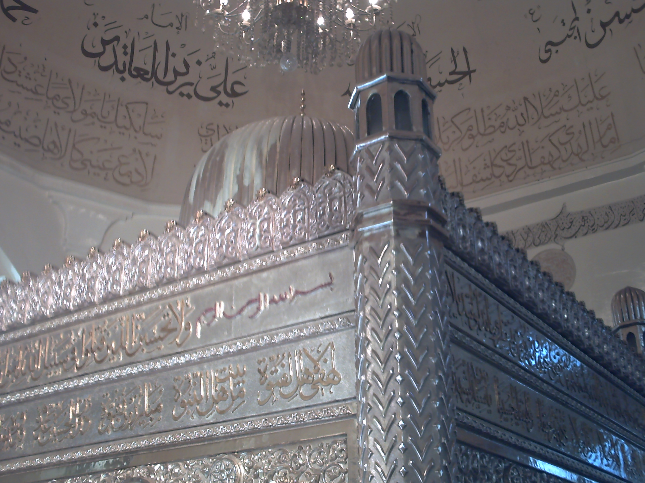 Raus_us_Shohda,Sham